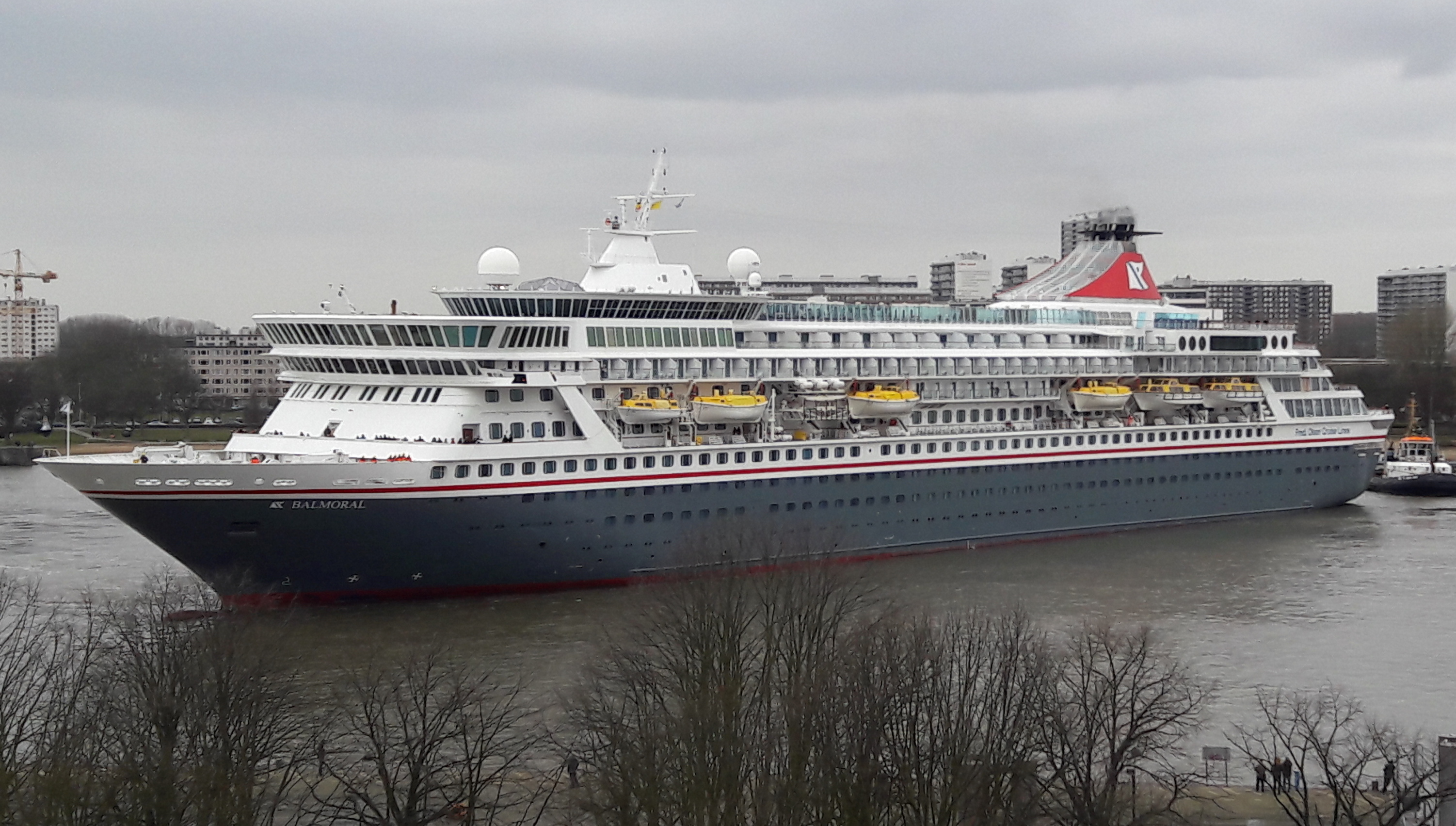 Balmoral, turning on river Scheldt, with help of tug boat